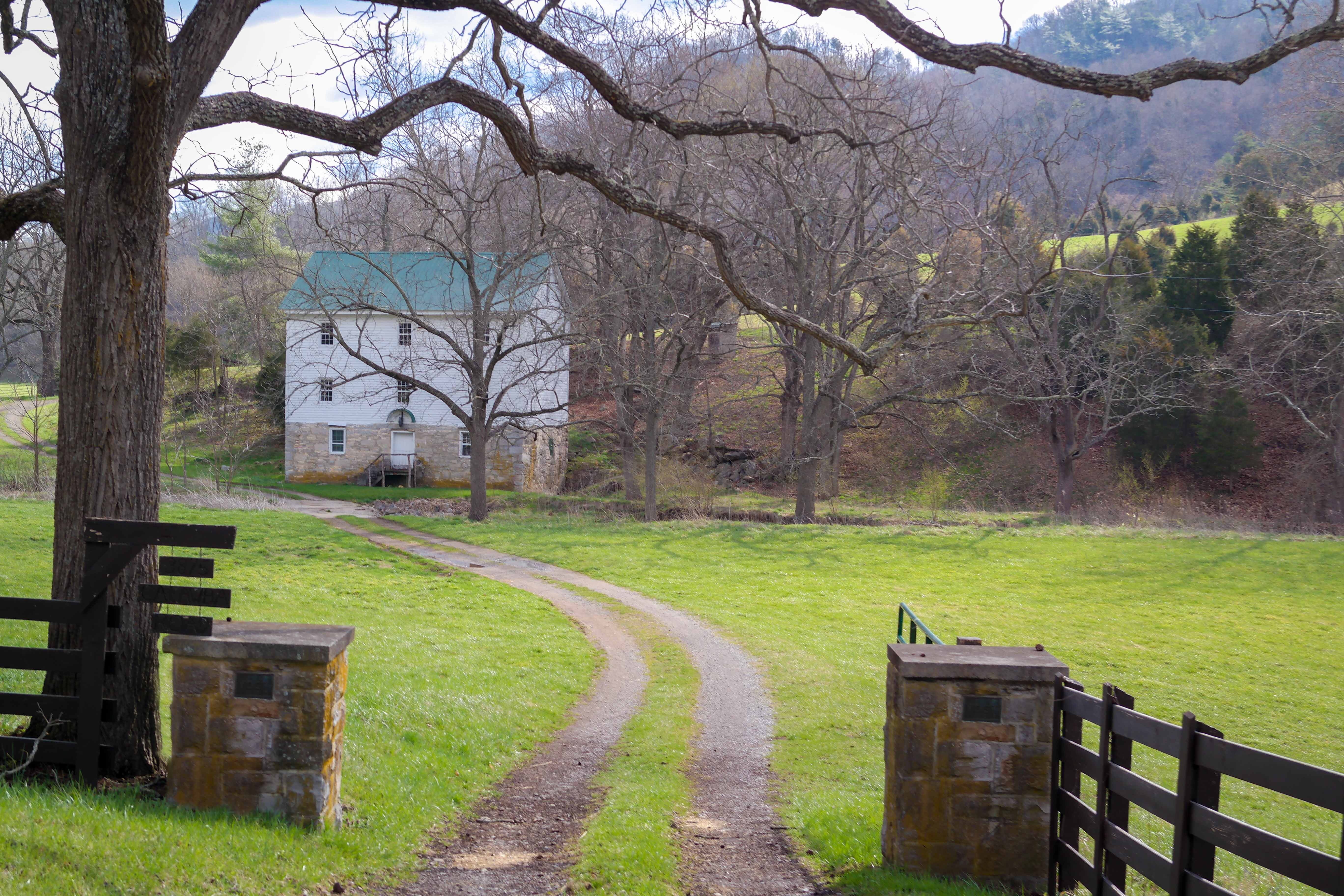 A view of McDonalds Mill, Virginia